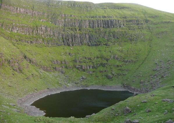 The deep corrie of Lough Dihneen below Galtybeg, Galty Mountains